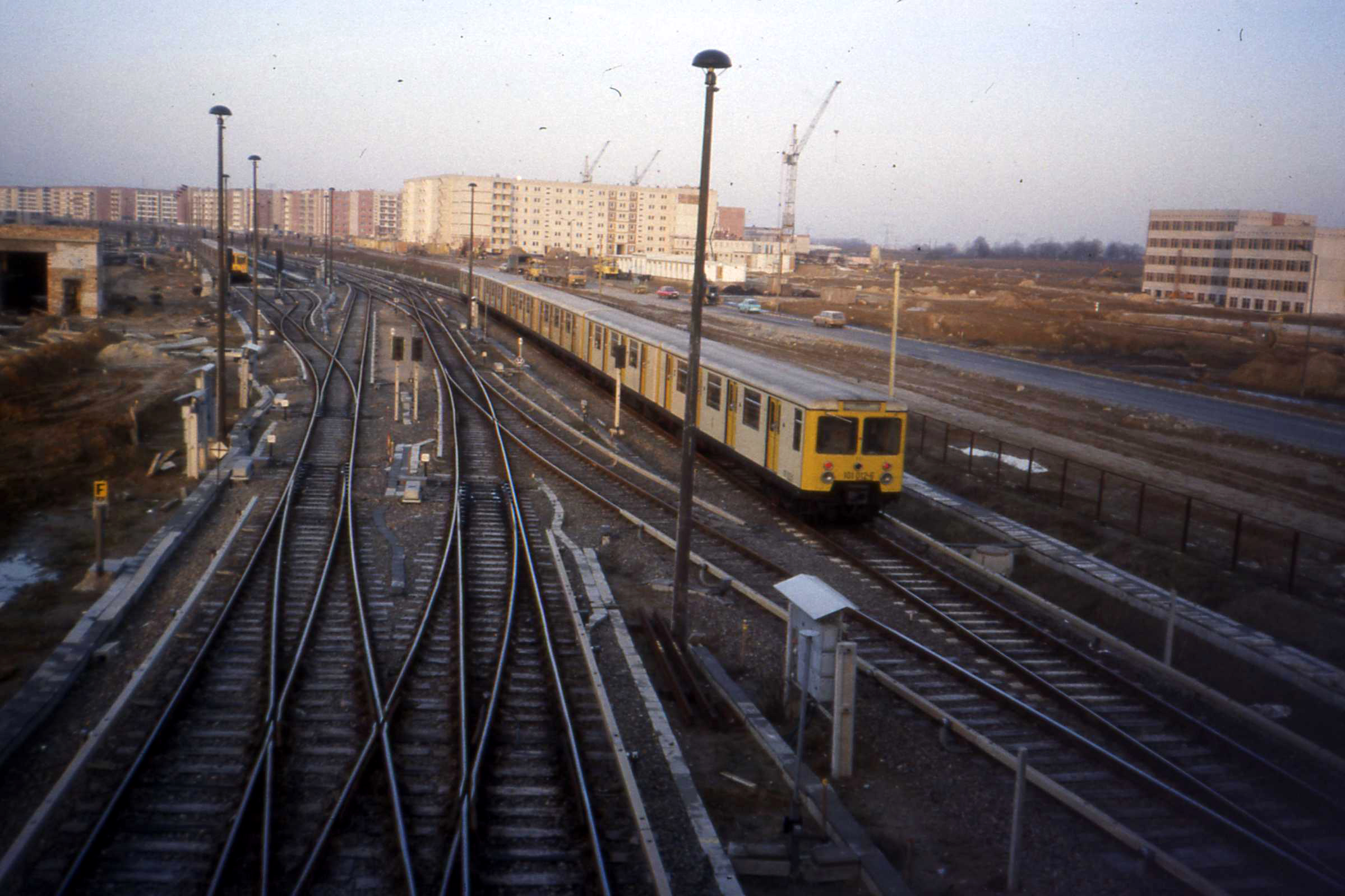 6 car train (type EIII) of the Berlin U-Bahn near Hönow.